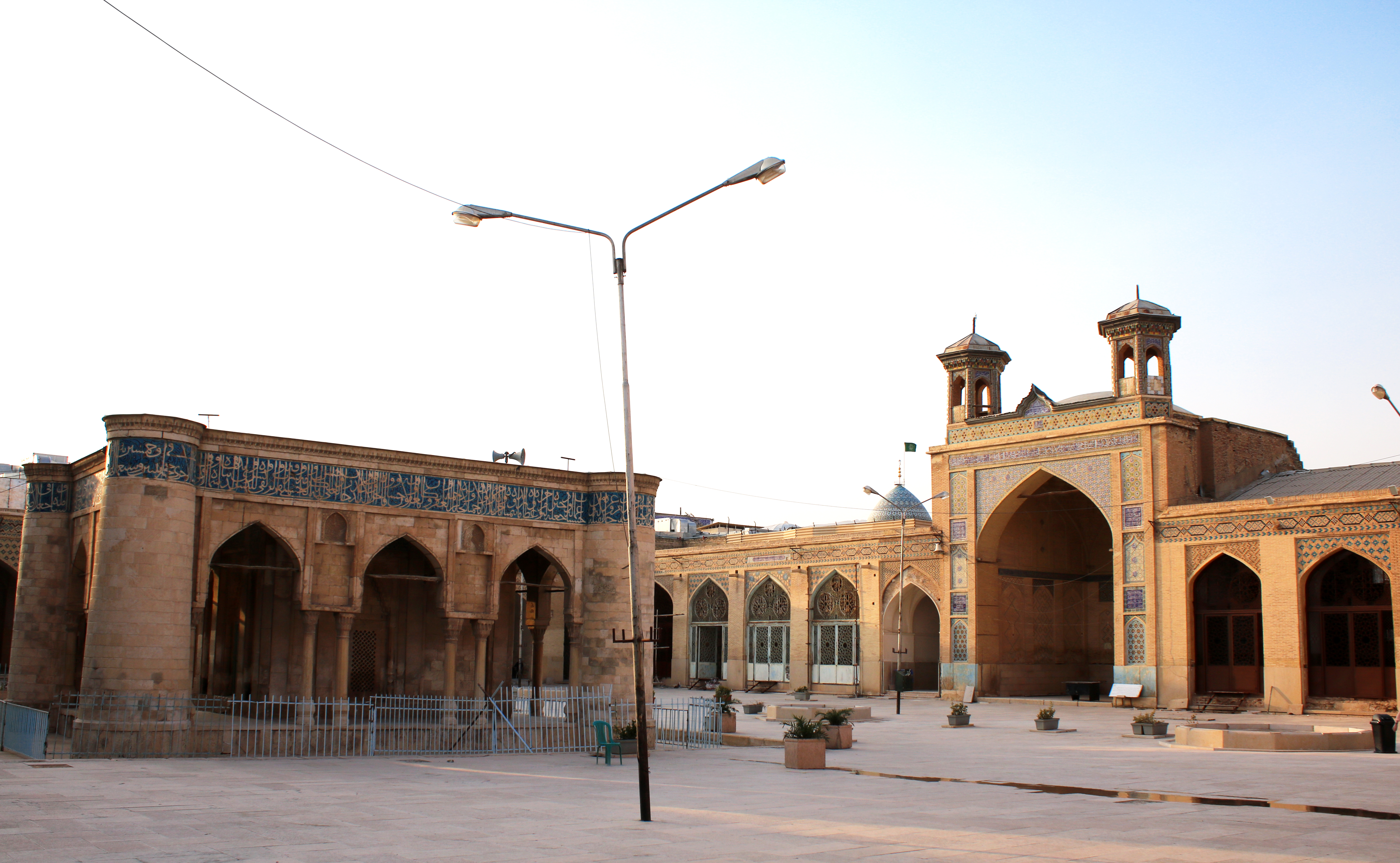 Atigh Mosque, Shiraz